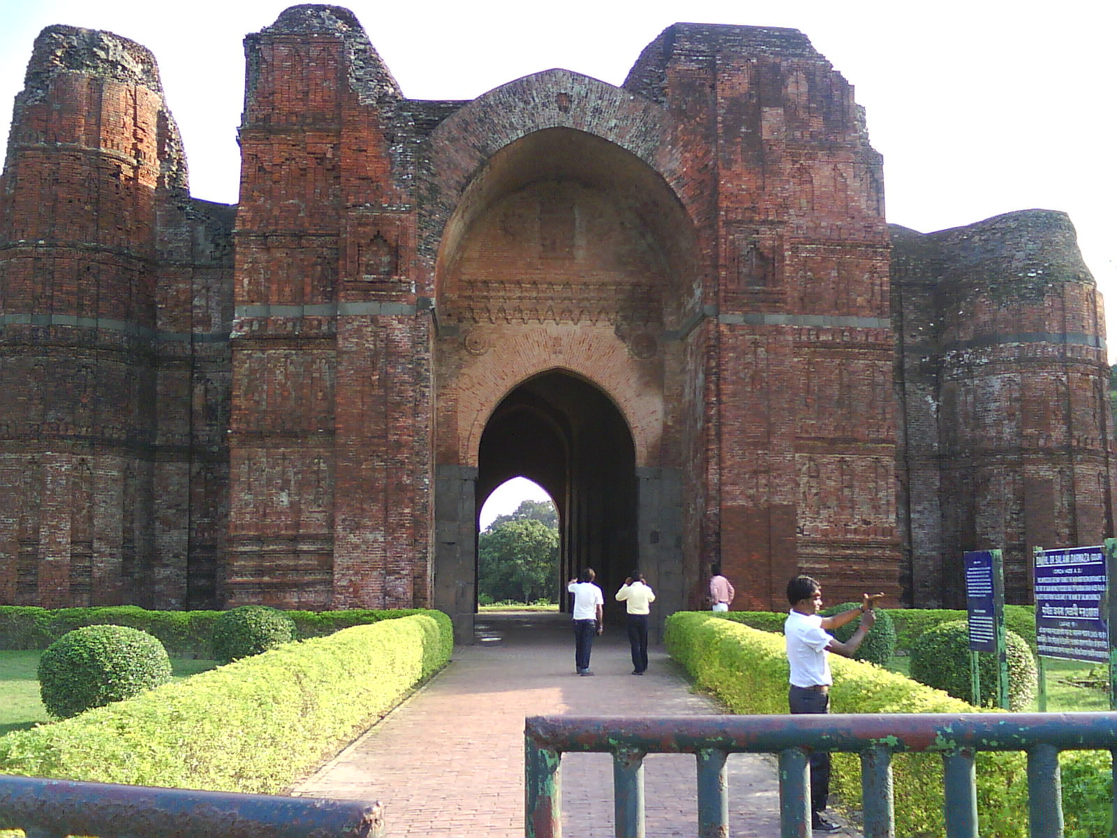 Dakhil darwaza also known as Salami Darwaza, view from the entrance (Front View)